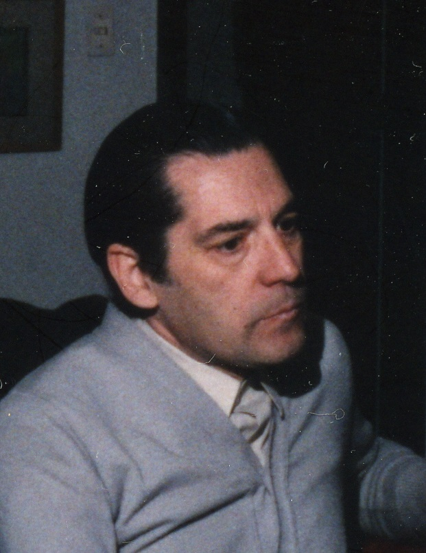 El pintor Eduardo Moisset de Espanés en 1987, Córdoba, Argentina.